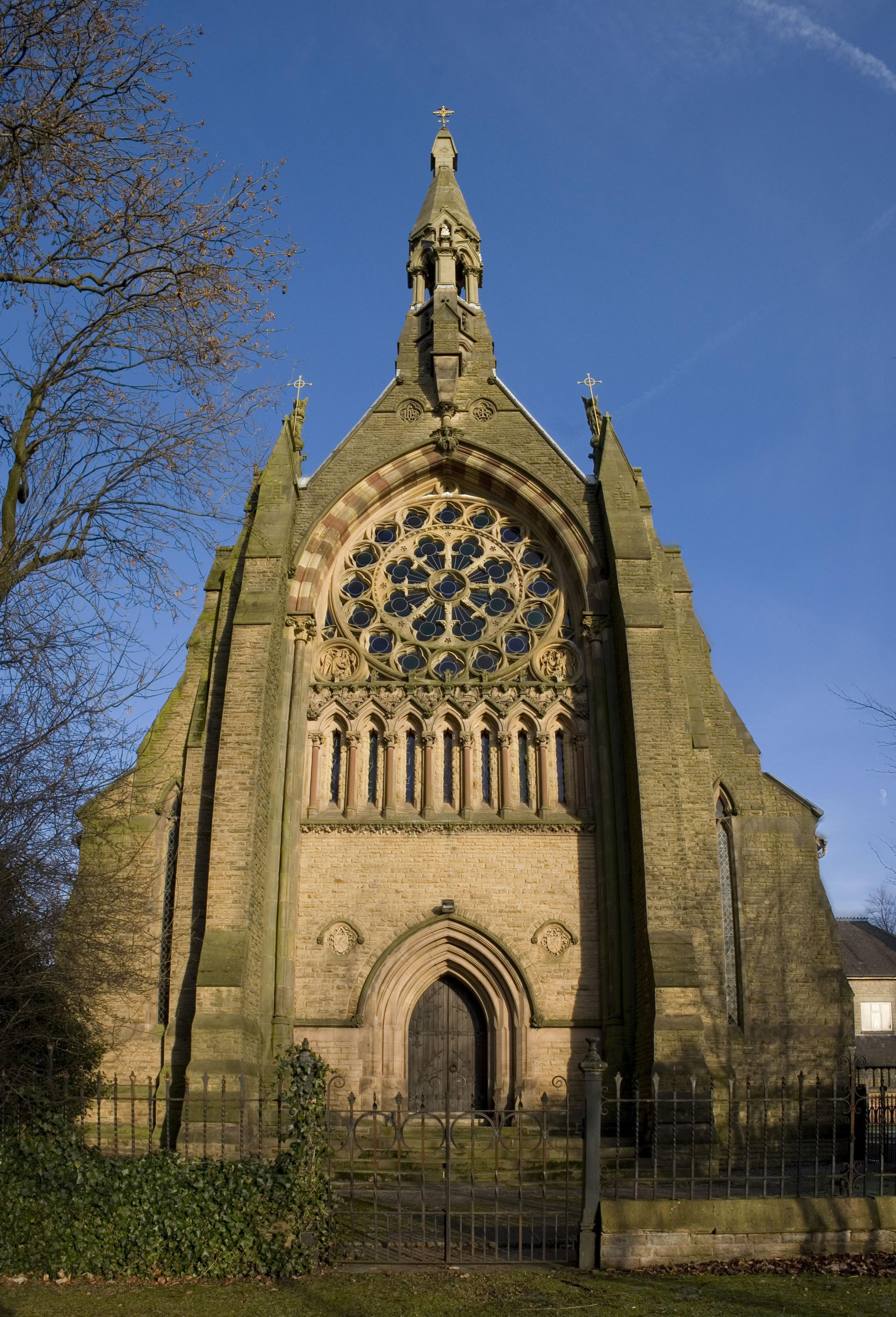 West front of the Roman Catholic church of All Saints, Trafford, Greater Manchester